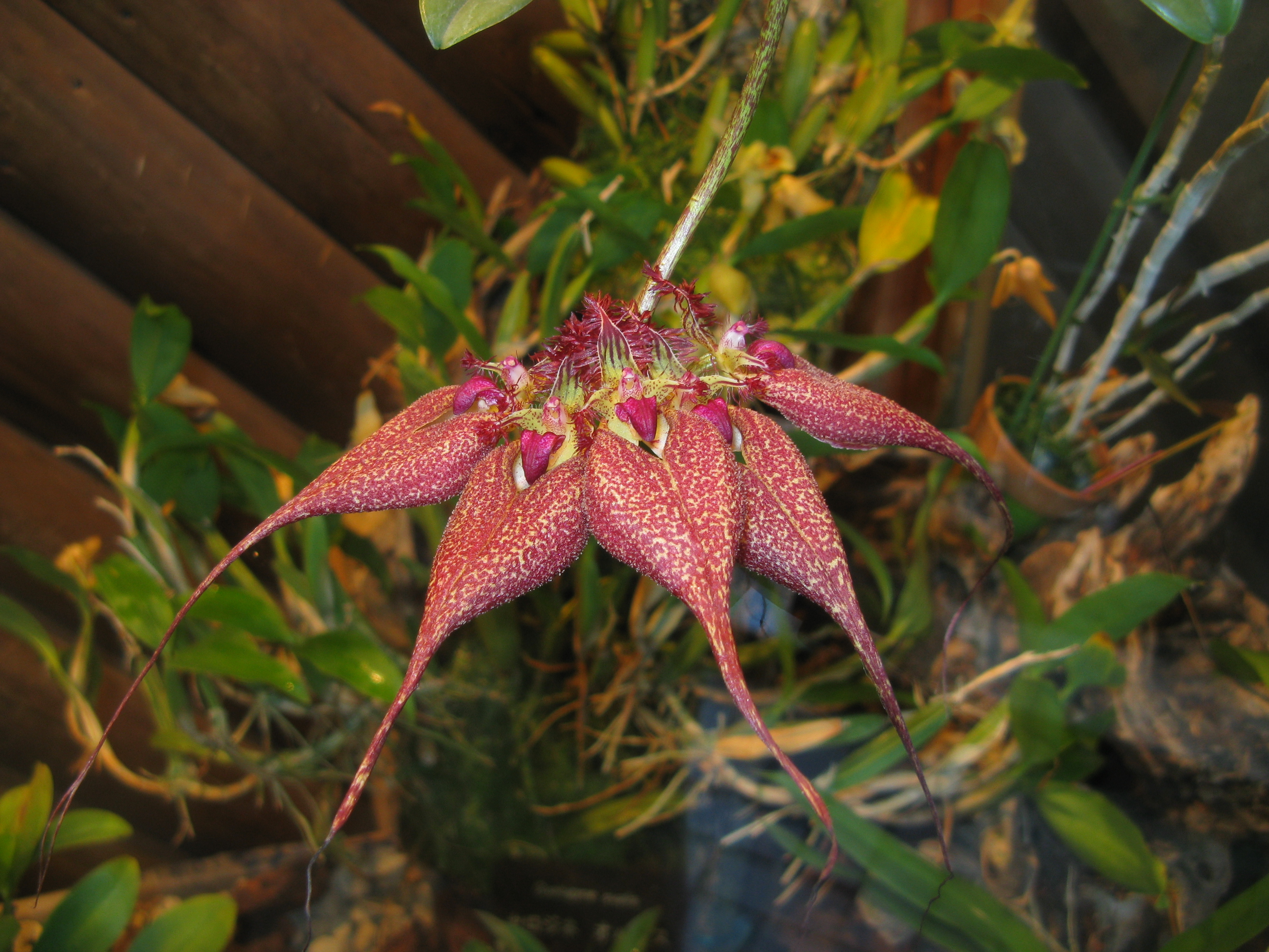 Bulbophyllum rothschildianum Place:Osaka Prefectural Flower Garden,Osaka,Japan